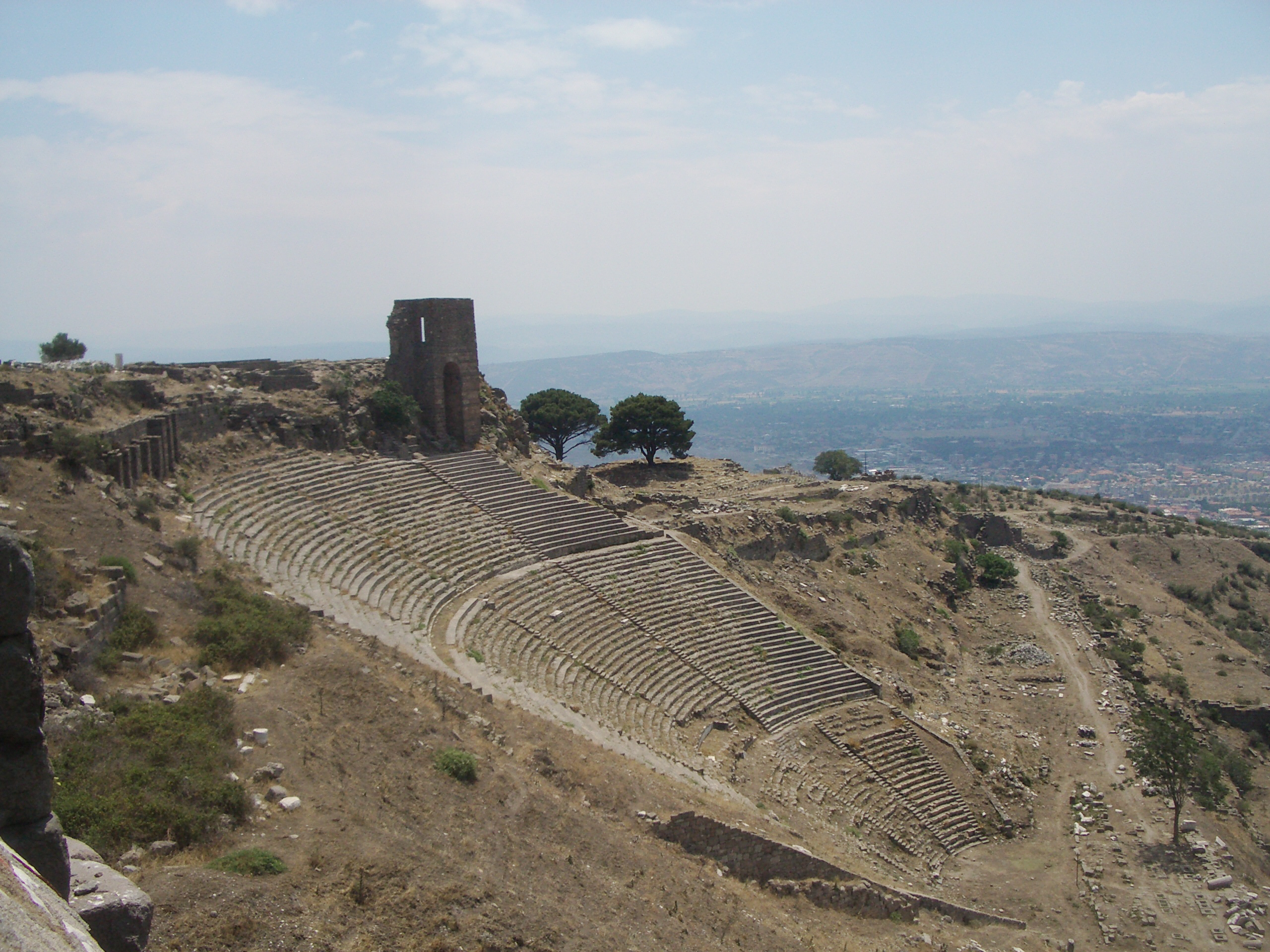 Akropol Tiyatro (Acropolis Theatre), Bergama (Pergamon), Turkey